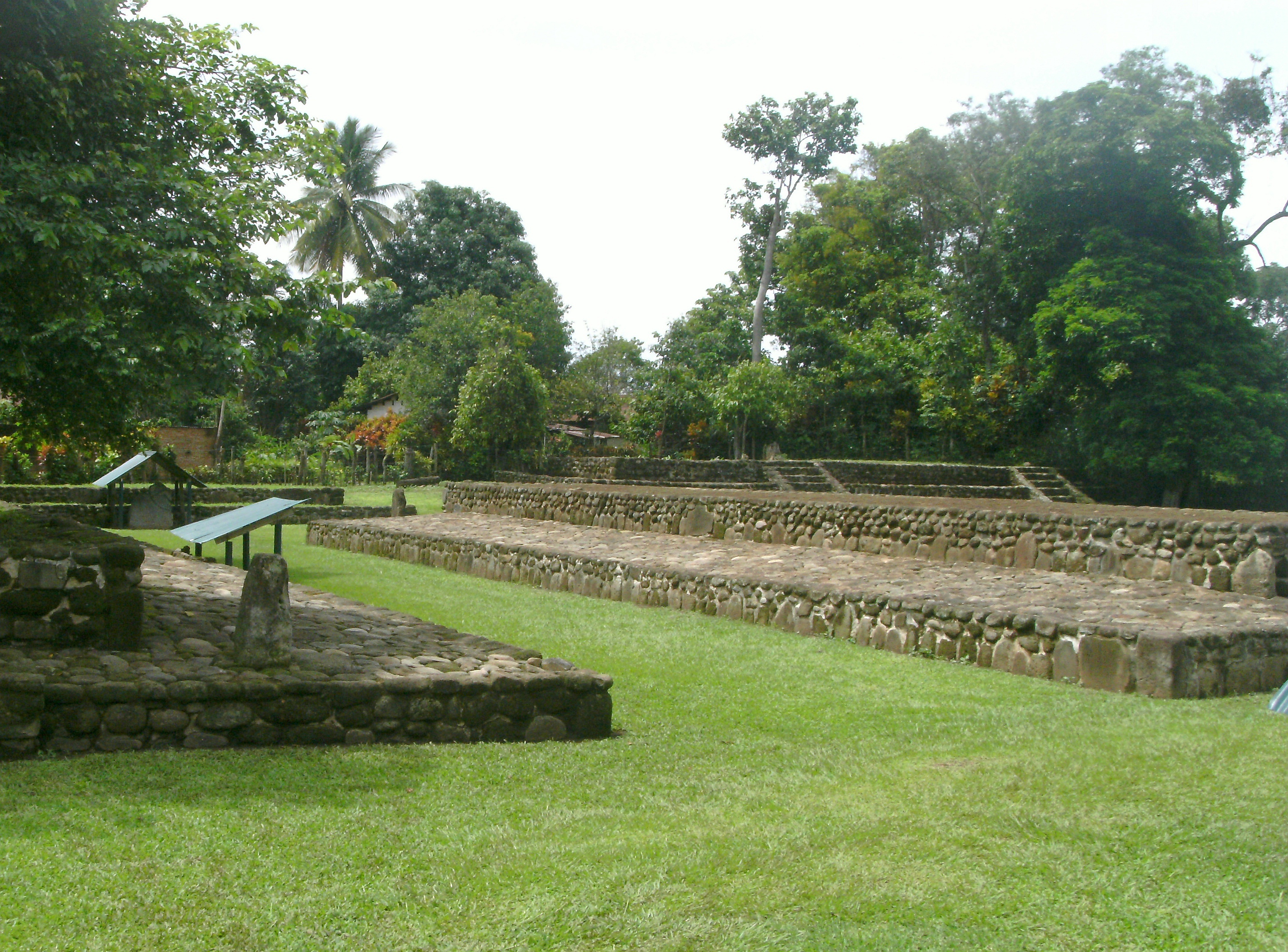 Montículo 126 y 127, Grupo F, Izapa, Chiapas, Mexico